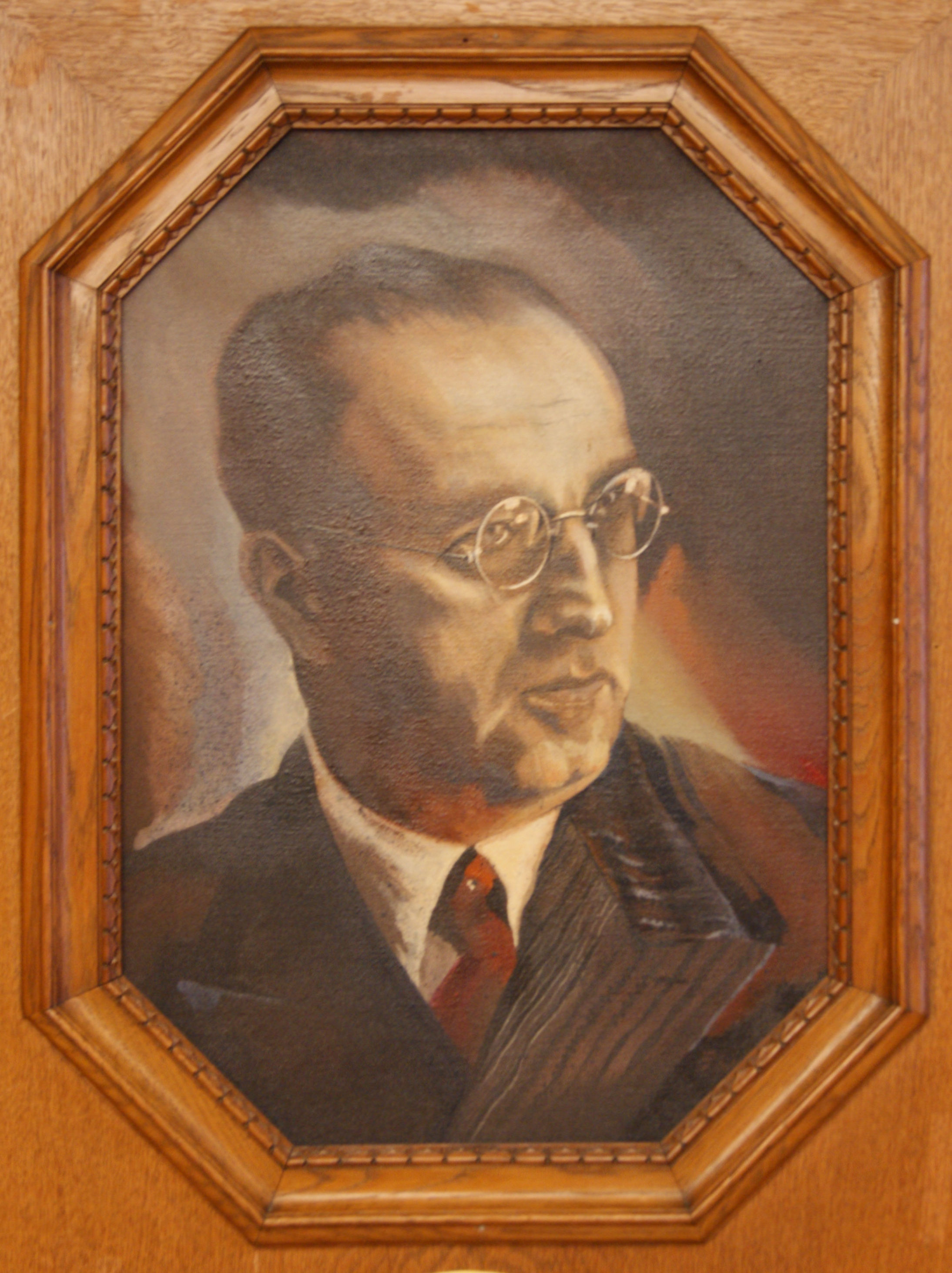 Stefan Kohler, Dentist and Mayor (1945) in Bregenz, Vorarlberg, Austria. Painting in the mayor's gallery in the town hall of Bregenz.